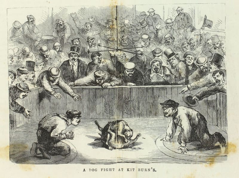 "A Dog Fight at Kit Burn’s" (Kit Burns's Saloon, New York) by Edward Winslow Martin (James D. McCabe), "The Secrets of the Great City" (Philadelphia, 1868). Library Company. USA.